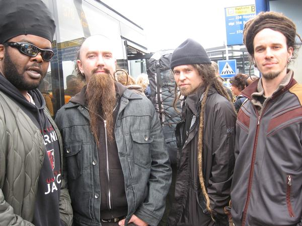 A photo of Heavyweight Dub Champion in Amsterdam